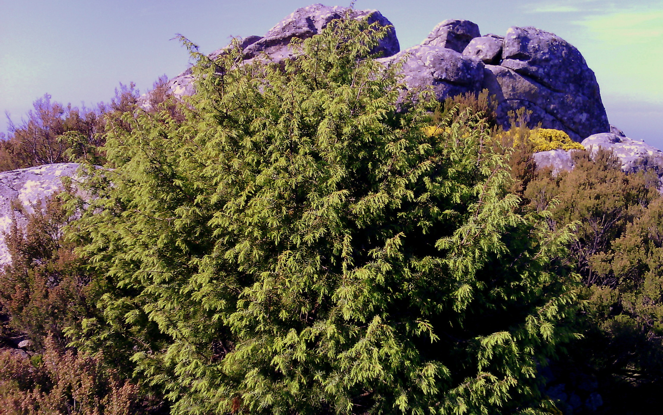 elba island